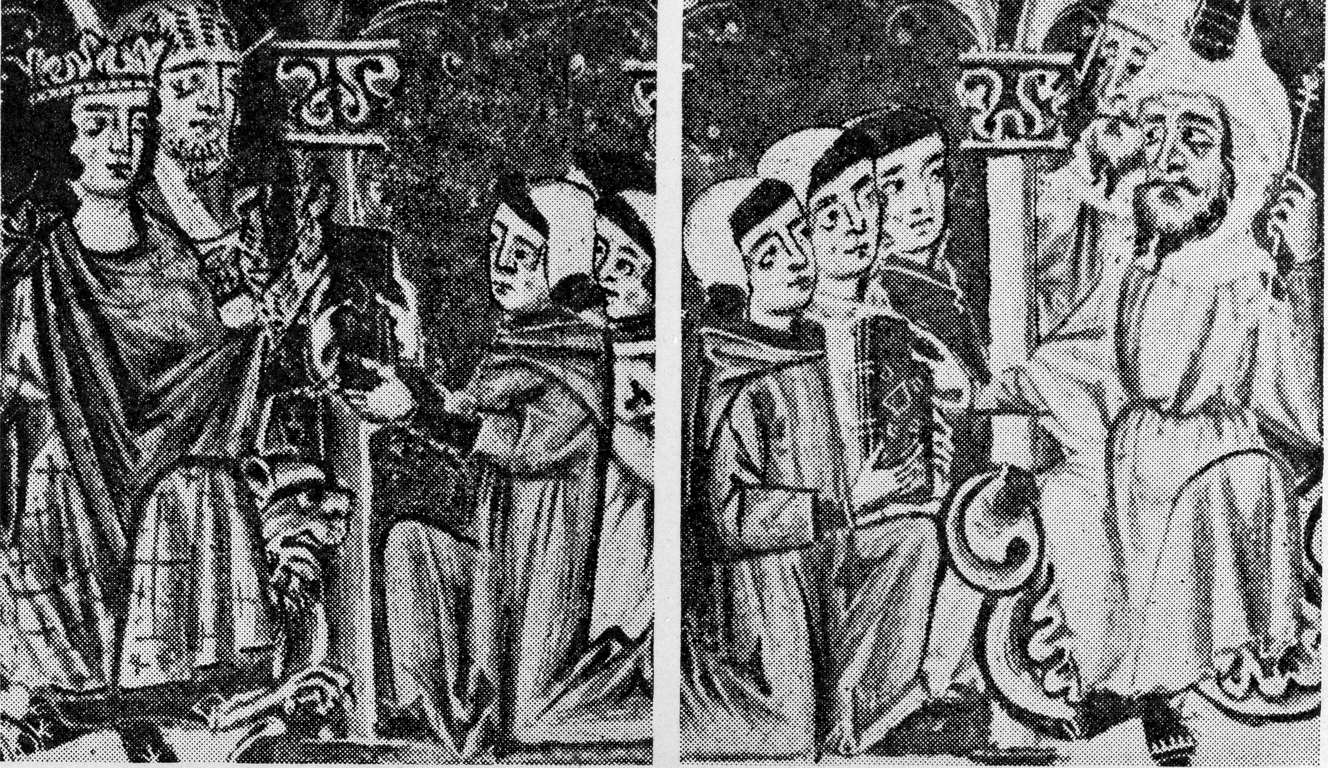 A Jewish translator receiving an Arabic medical volume from an Eastern potentate, etc General Collections Keywords: medicine, islamic